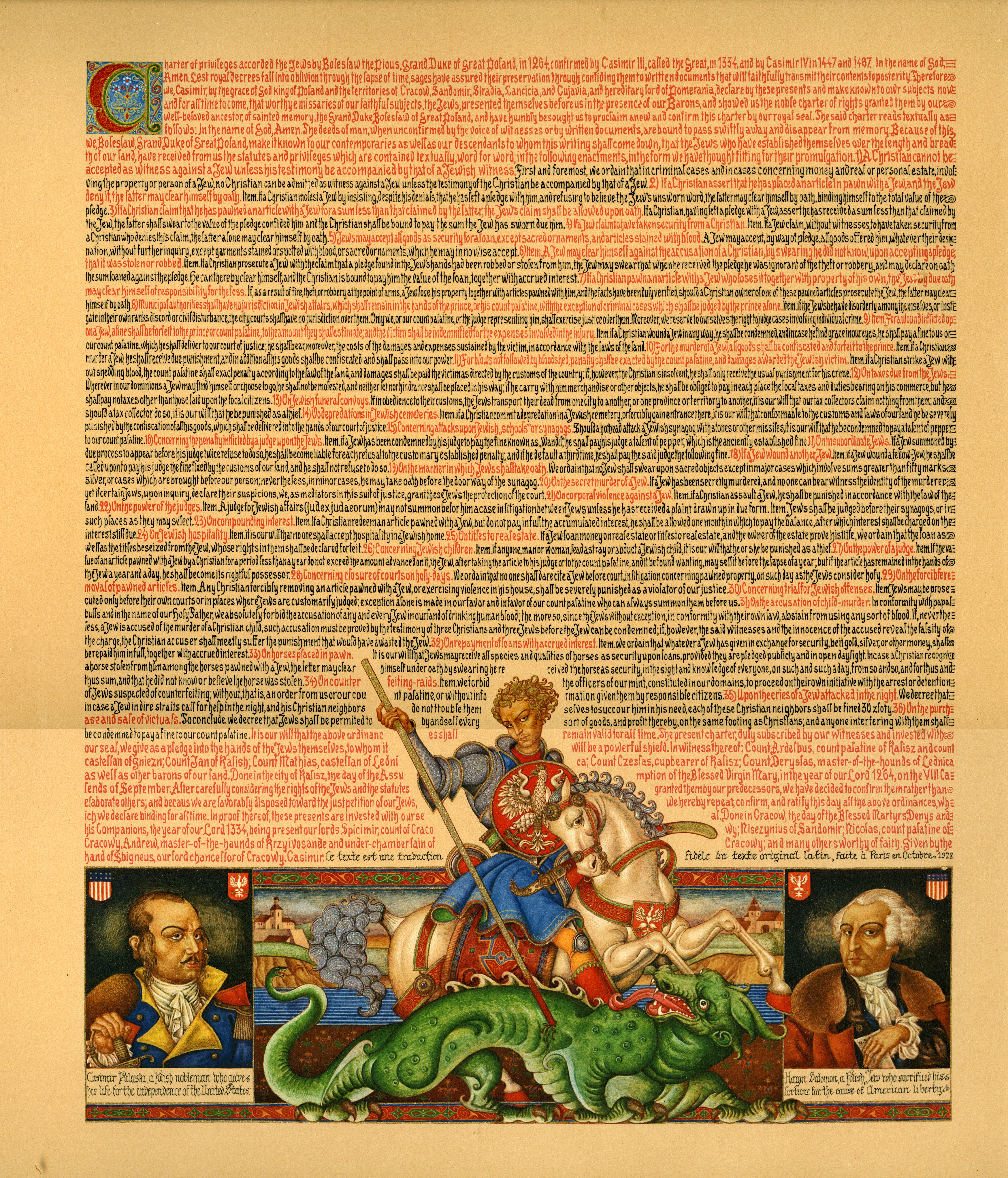 The General Charter of Jewish Liberties, known as the Statute of Kalisz was issued by Boleslaw the Pious, September 8, 1264. The Statute granted wide-ranging and unprecedented legal rights to the Jews of Poland, including freedom of worship, and the right to trade and travel. Arthur Szyk reminded both Poles and Jews in the 20th century of this historic precedent through his seminal work, a visual interpretation of the text Statute of Kalisz (published in 1932), executed in the style of a medieval illuminated manuscript; the 45 paintings were exhibited widely in Poland. This page translates much of the Statute into English.